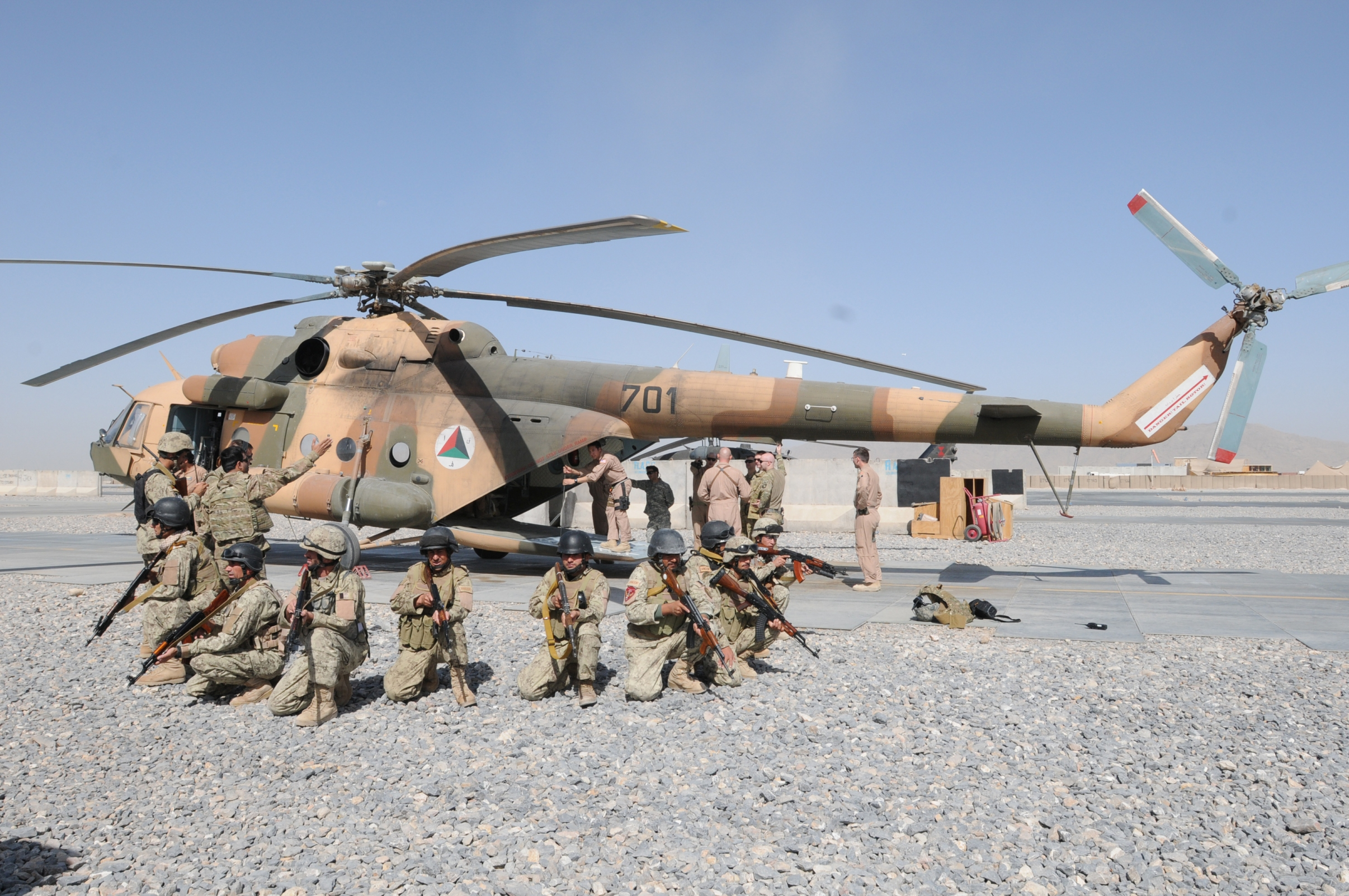 KANDAHAR AIRFIELD, Afghanistan (Sept. 18, 2011) -- Members of the 2nd Afghan National Civil Order Police rehearse their security posture around an MI-17 helicopter from the Afghan Air Force’s Kandahar Air Wing as the two units prepare to conduct a training air assault on Texas Hilo Range here Sept. 18. Each of the units have been working with Task Force Thunder (159th Combat Aviation Brigade) to increase their capabilities, and this training mission marks the first time two Afghan forces have worked together with this level of integration. (U.S. Army Photo by Sgt. 1st Class Stephanie L. Carl, Task Force Thunder Public Affairs/released)